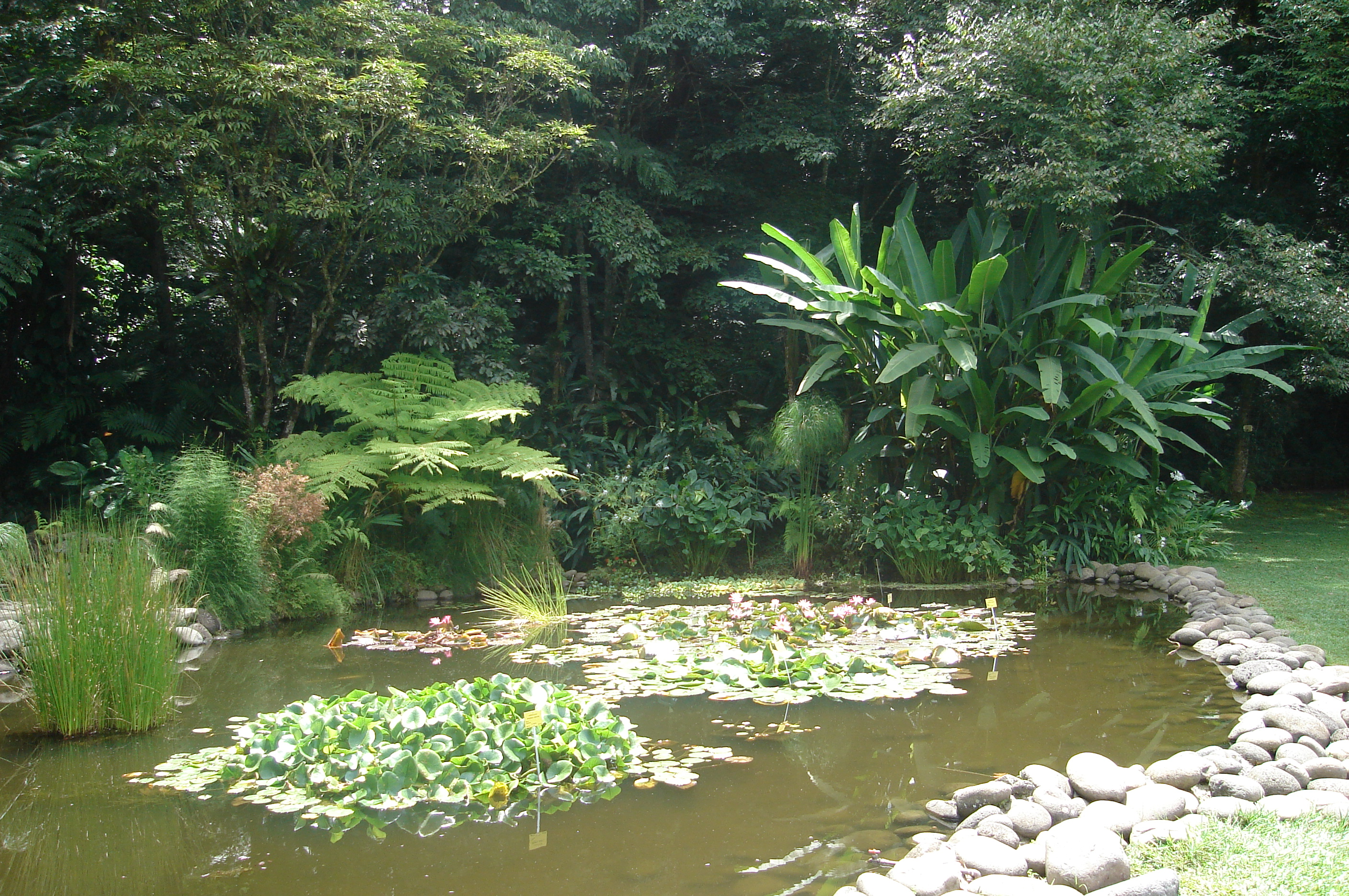 Botanical Garden "Francisco Javier Clavijero"; Xalapa, Ver. MEXICO